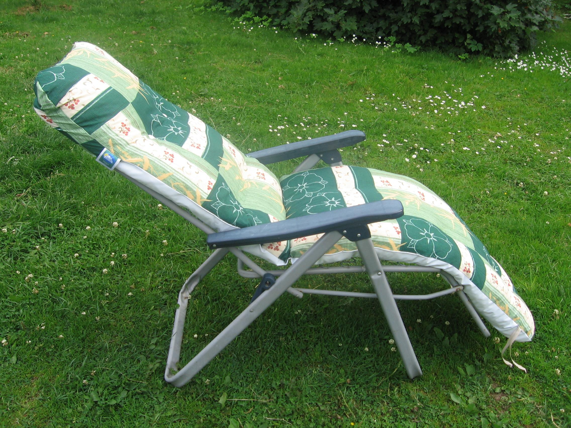 A Baden-Baden chair.